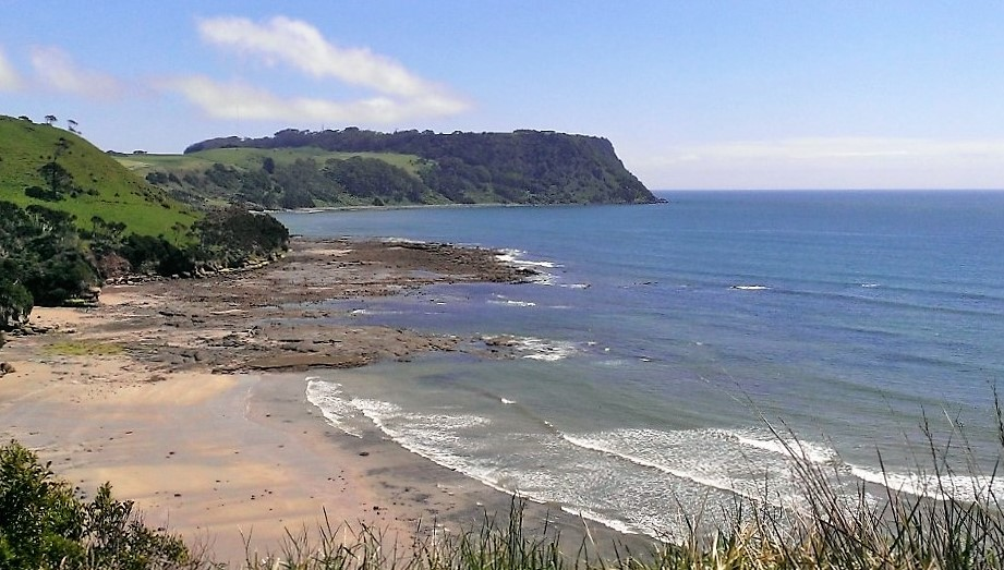 Table Cape taken from nearby Fossil Bluff, facing North